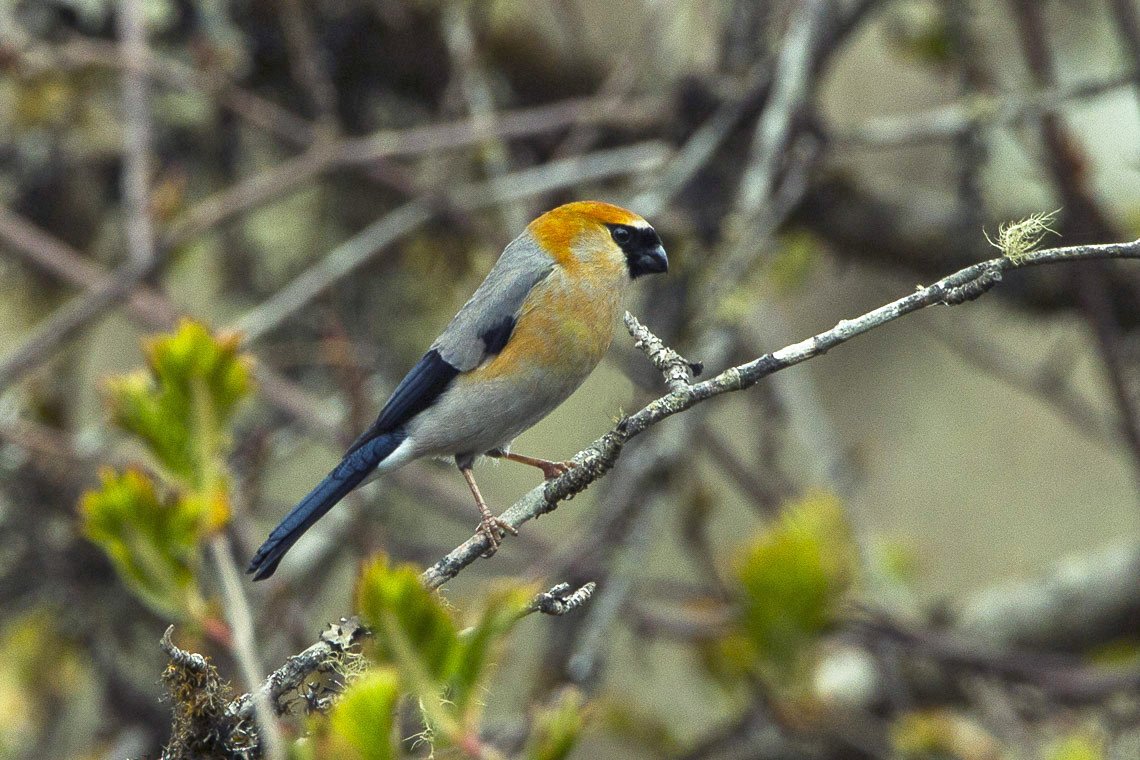 Red-headed Bullfinch - Bhutan_S4E9956